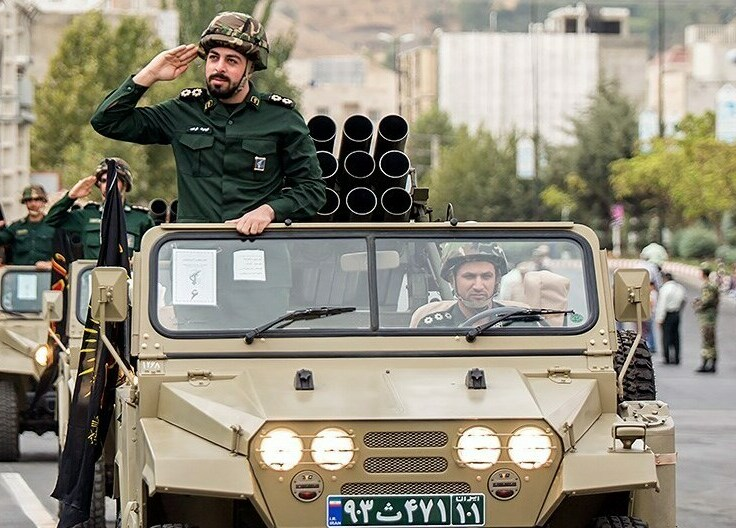 Iranian Fath Safir with Type-63 pattern rocket launcher at a parade in Sanandaj.